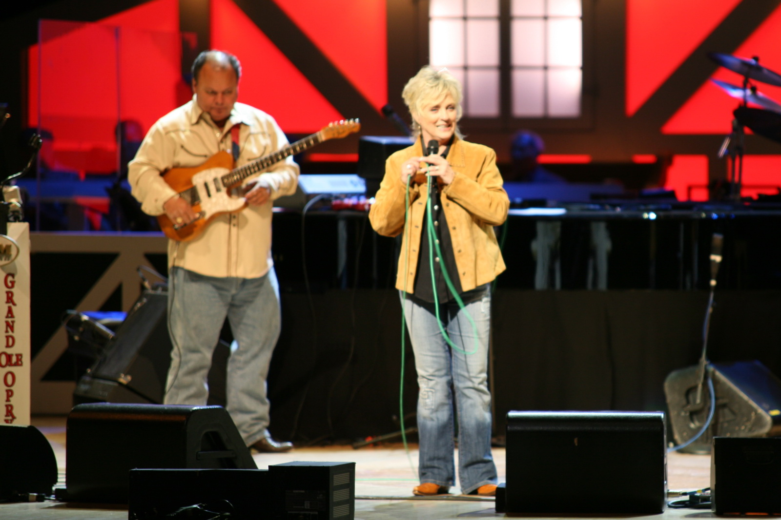 Connie Smith alongside her guitar player at the Grand Ole Opry (May 18, 2007).